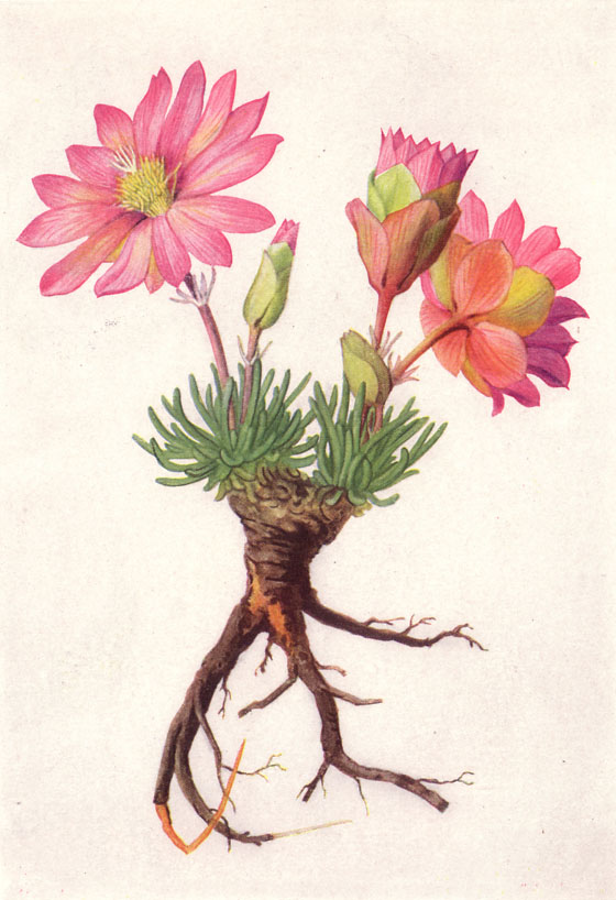 Bitter Root (Lewisia rediviva Pursh).